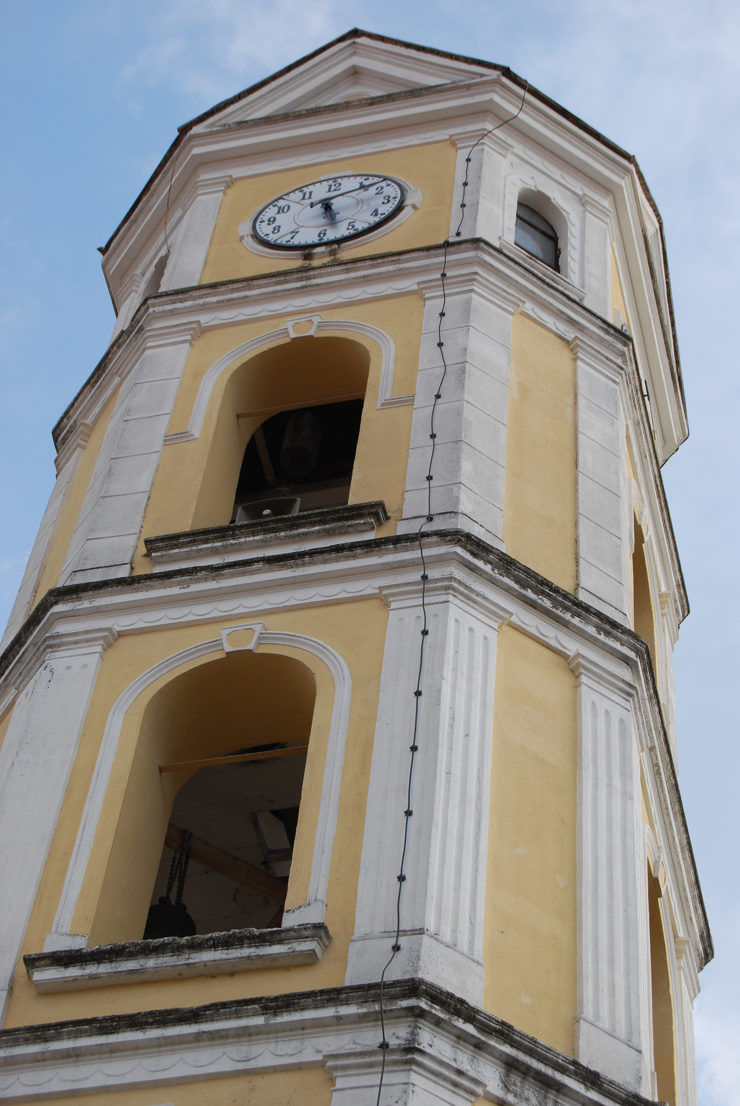 Assumption of Mary Church in Kastoria